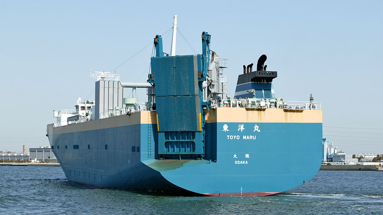 Mazda's car carrier Toyo Maru ( 3,200 ton ) in Nagoya Port IMO number: 9279604